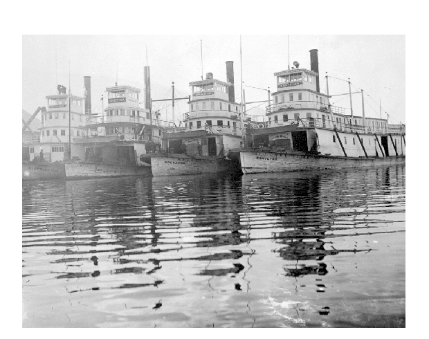 Photographer McRae Brothers Photo taken 1910 Source BC Archives # A-00422 [1]